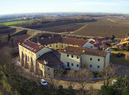 La Mason air view